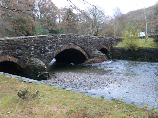 Pont Bethania Bridge over the river Glaslyn